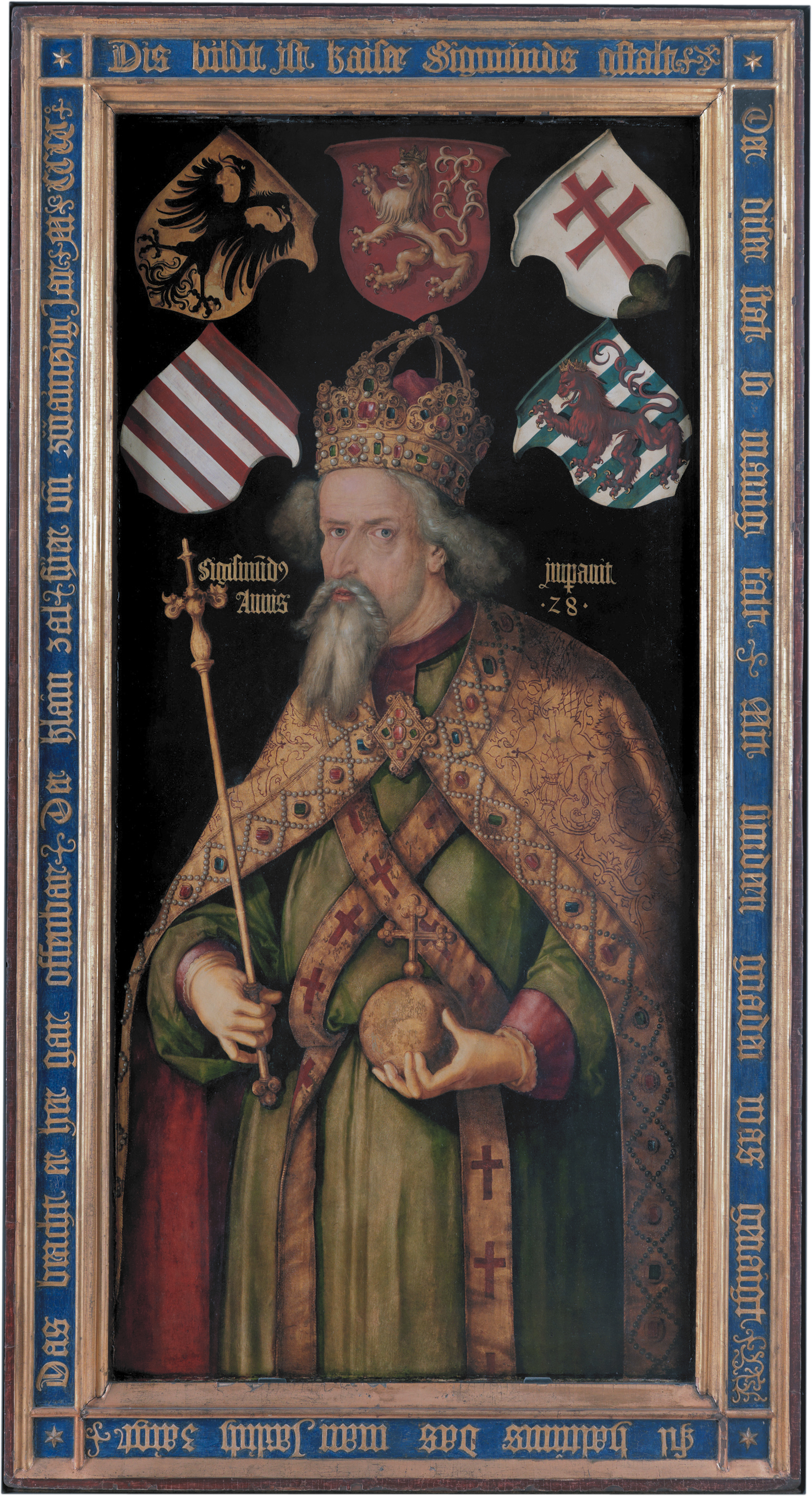 Sigismund, Holy Roman Emperor oil on panel 215 x 115 cm circa 1511-1513 inscribed c.: Sigismund(us) imp(er?avit / Annis · 28 inscribed on the frame: Dis bildt ist Kaiser Sigmunds gstalt / Der diser stat so manig falt· Mit sundern gnaden was genaigt·/ fil haltums das man Jarlich zaigt·/ Das bracht er her gar offenbar· Der klein zahl fyer vn(d) zwainczig Jar· M·CCCC·